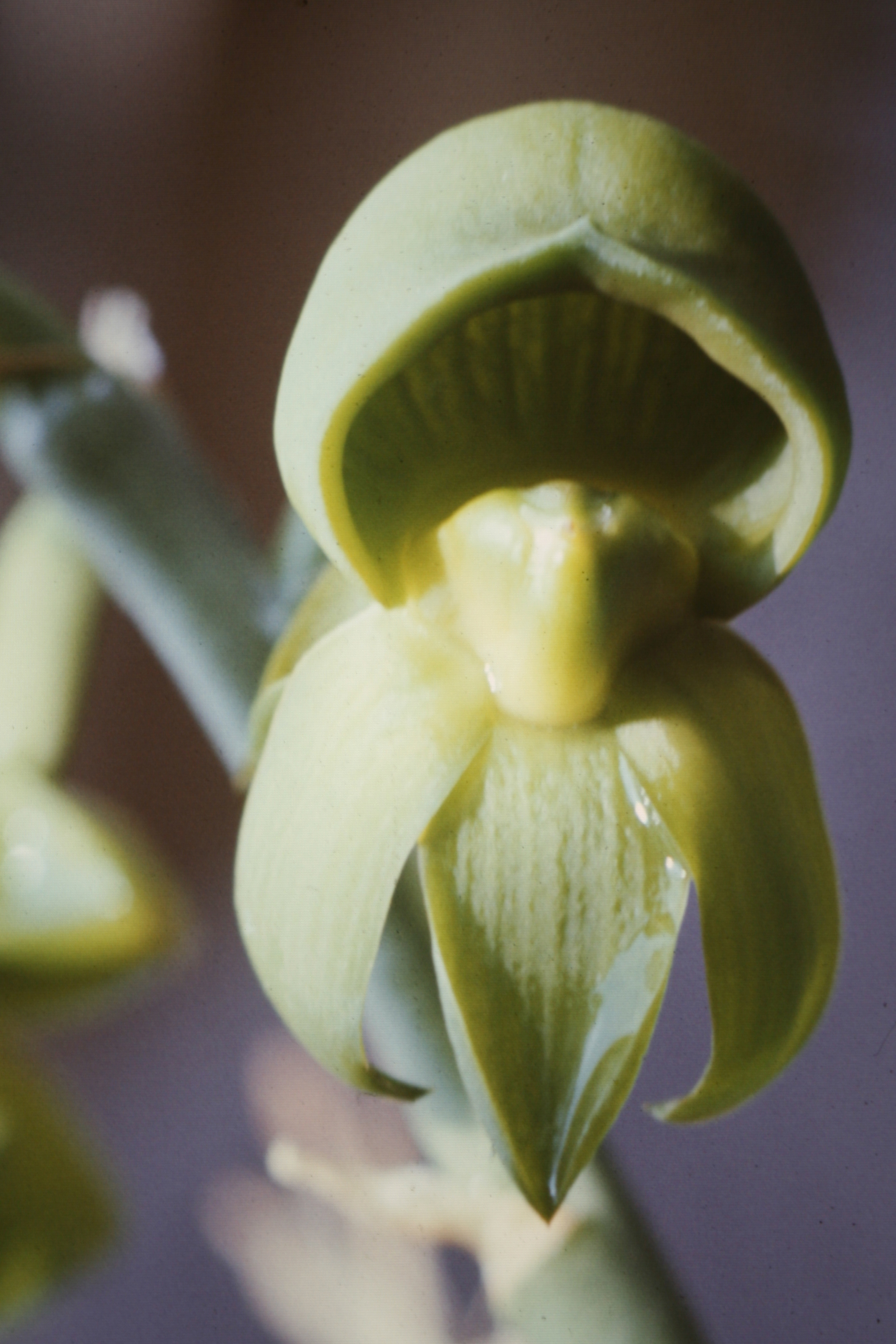 Catasetum discolor. Female flower. Suriname.